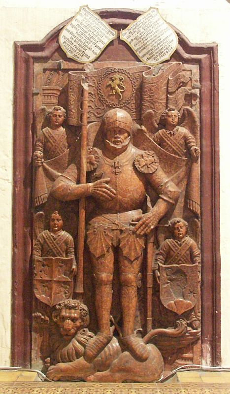 Stephen Szapolyai, Hungarian nobleman from the XV century.